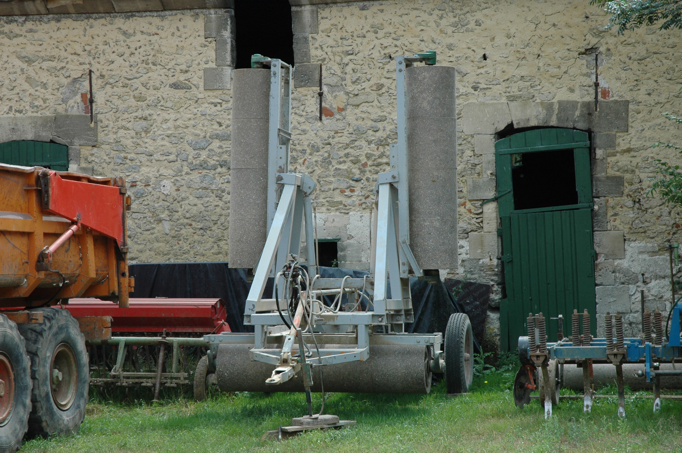 a roller